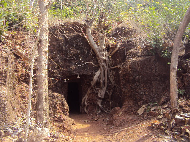 pandav caves kunakeshwar